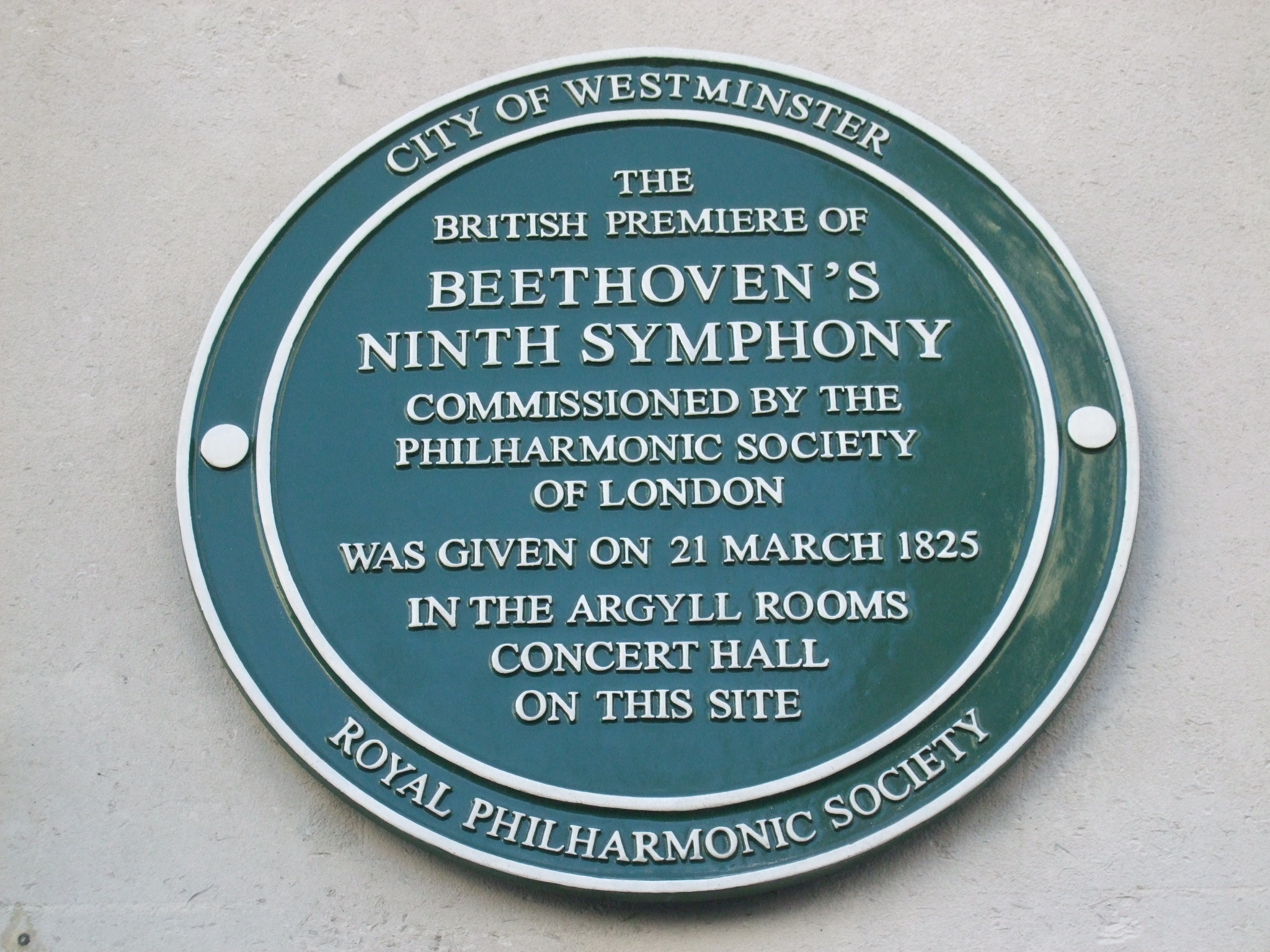 Plaque of the first UK performance of Beethoven's 9th Symphony, Regent Street, London, UK